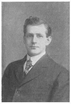 Photograph of Harry Shoemaker, which appeared on page 127 of the November, 1908 issue (Volume III, number 6) of The Aerogram, in the article "American Development of the Wireless Telegraph" by Robert Matthews.